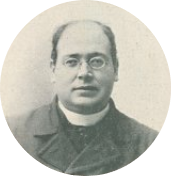 Fr. Domingos Maria Frutuoso, King Manuel II of Portugal's religious teacher.